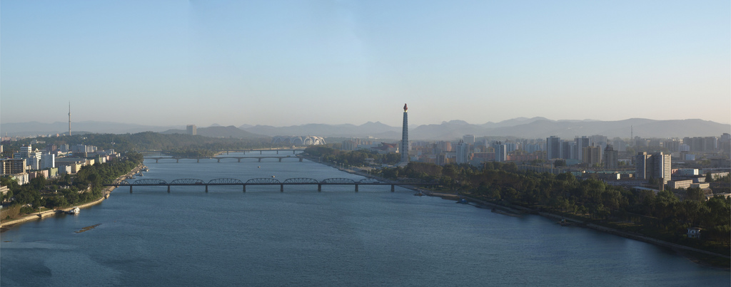 Taken from Yanggakdo Hotel, Pyongyang, facing North, towards Tower of Juche Idea and May Day stadium.